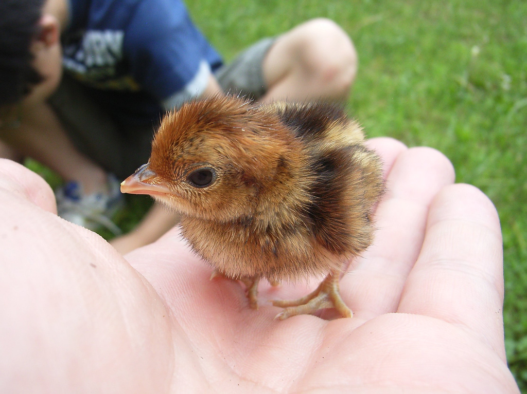 Chinese Bamboo partrige, two days old